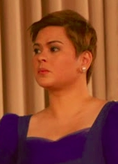 Sara Duterte at the oathtaking of Rodrigo Duterte as the 16th President of the Philippines.